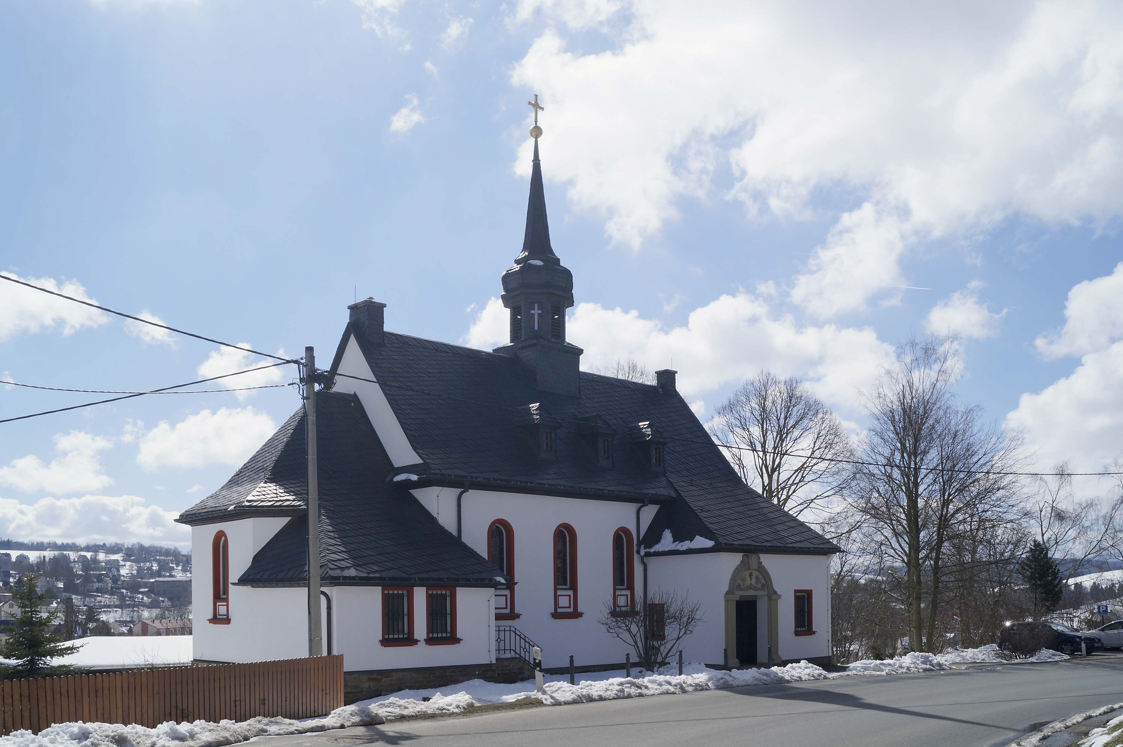 Catholic Church St. Bonifatius, Baerenstein (Erzgebirge, Saxony, Germany)